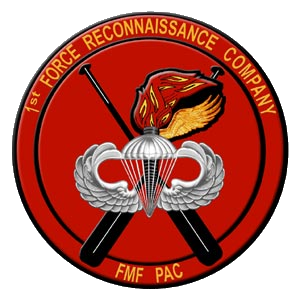 1st Force Reconnaissance Company seal during the 1950s. Captioned As {}